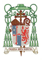 Coat of Arms of Francis Patrick Keough.